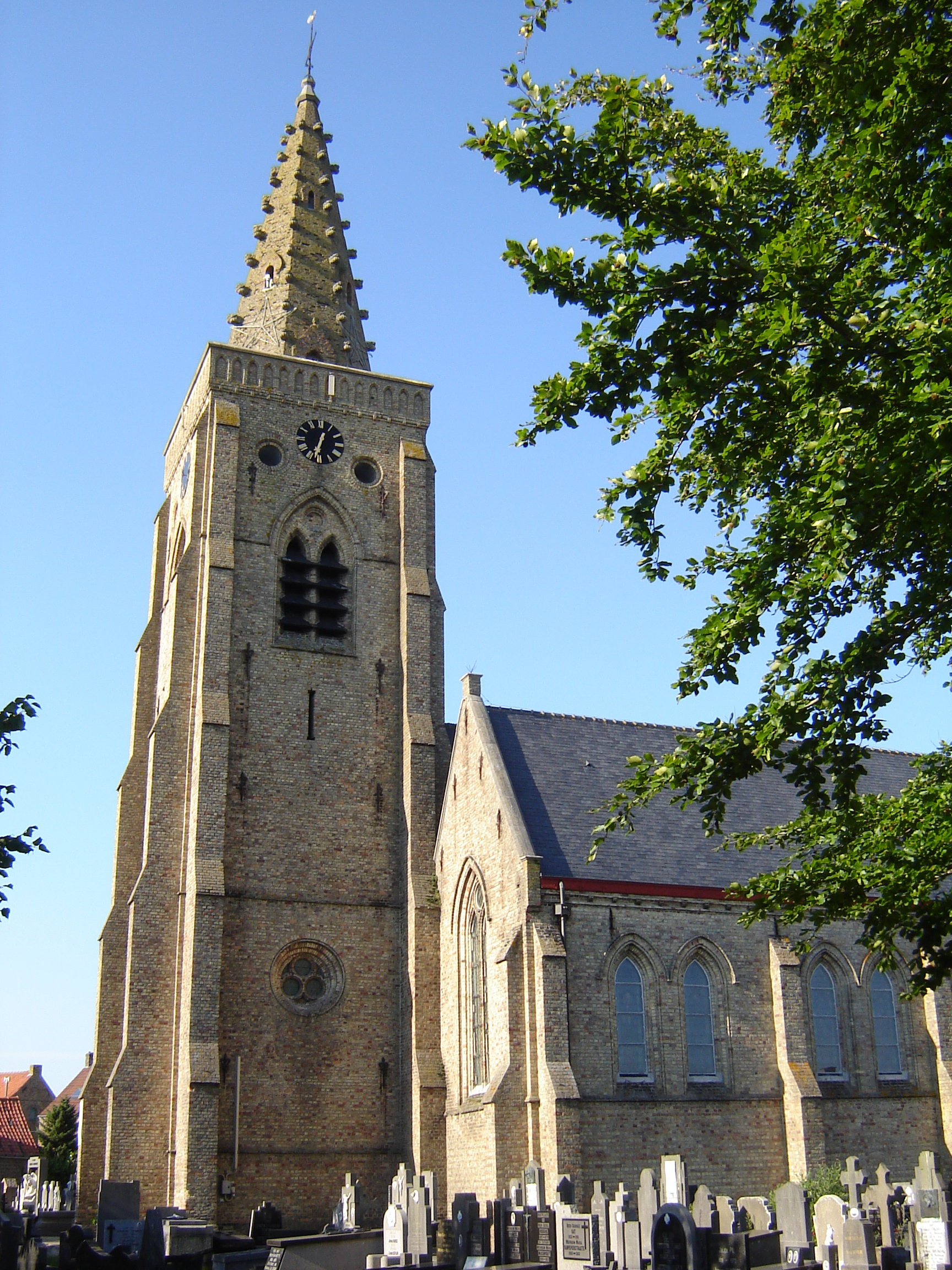 Church of Saint Wandrille in Beerst. Beerst, Diksmuide, West Flanders, Belgium